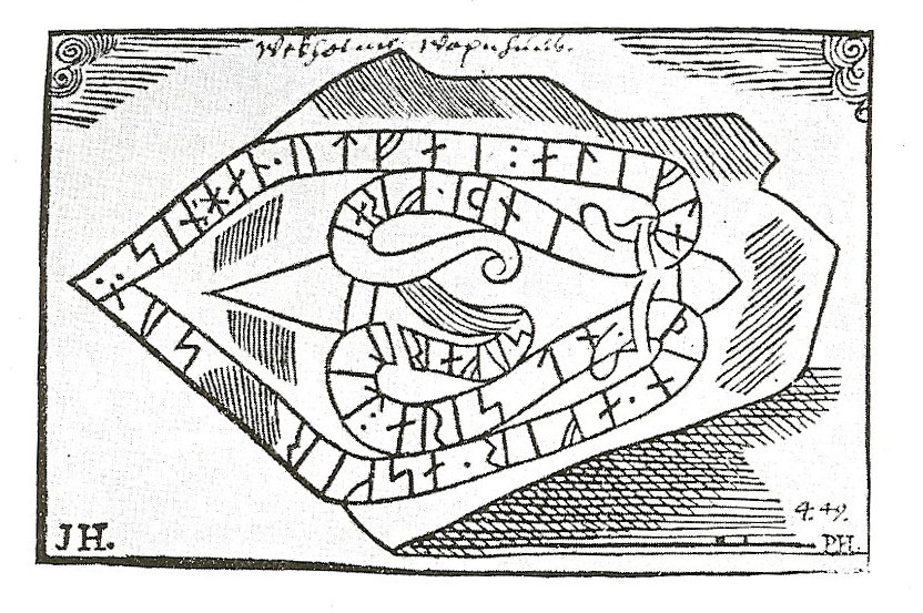 drawing